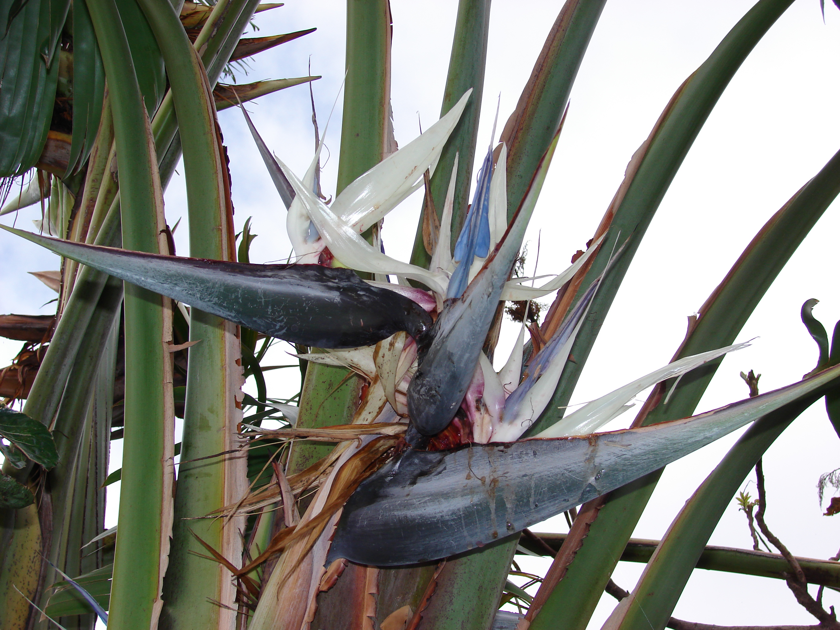 Strelitzia nicolai (flowers). Location: Maui, Makawao